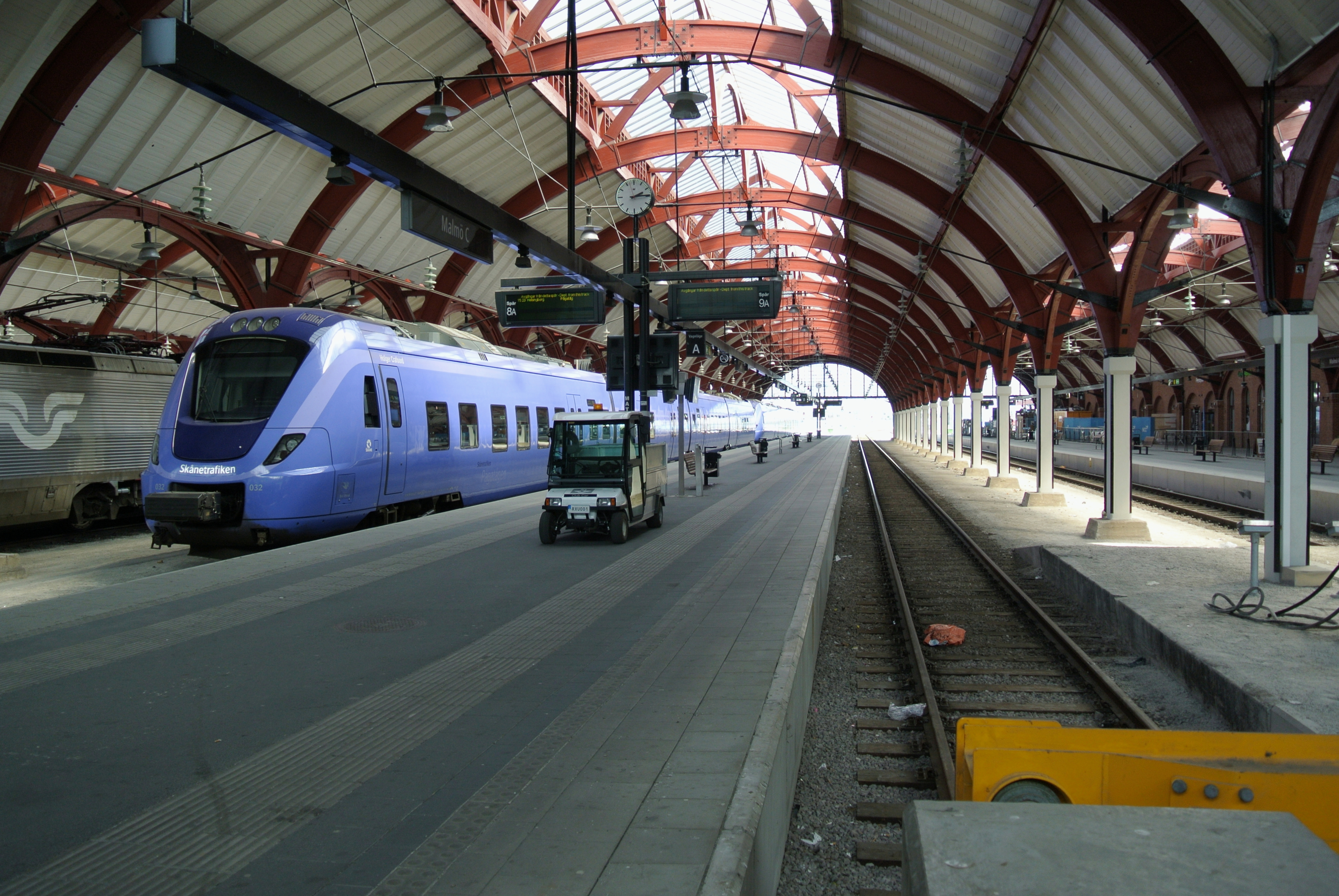 Platforms at Malmö central station, and train of Skånetrafiken.